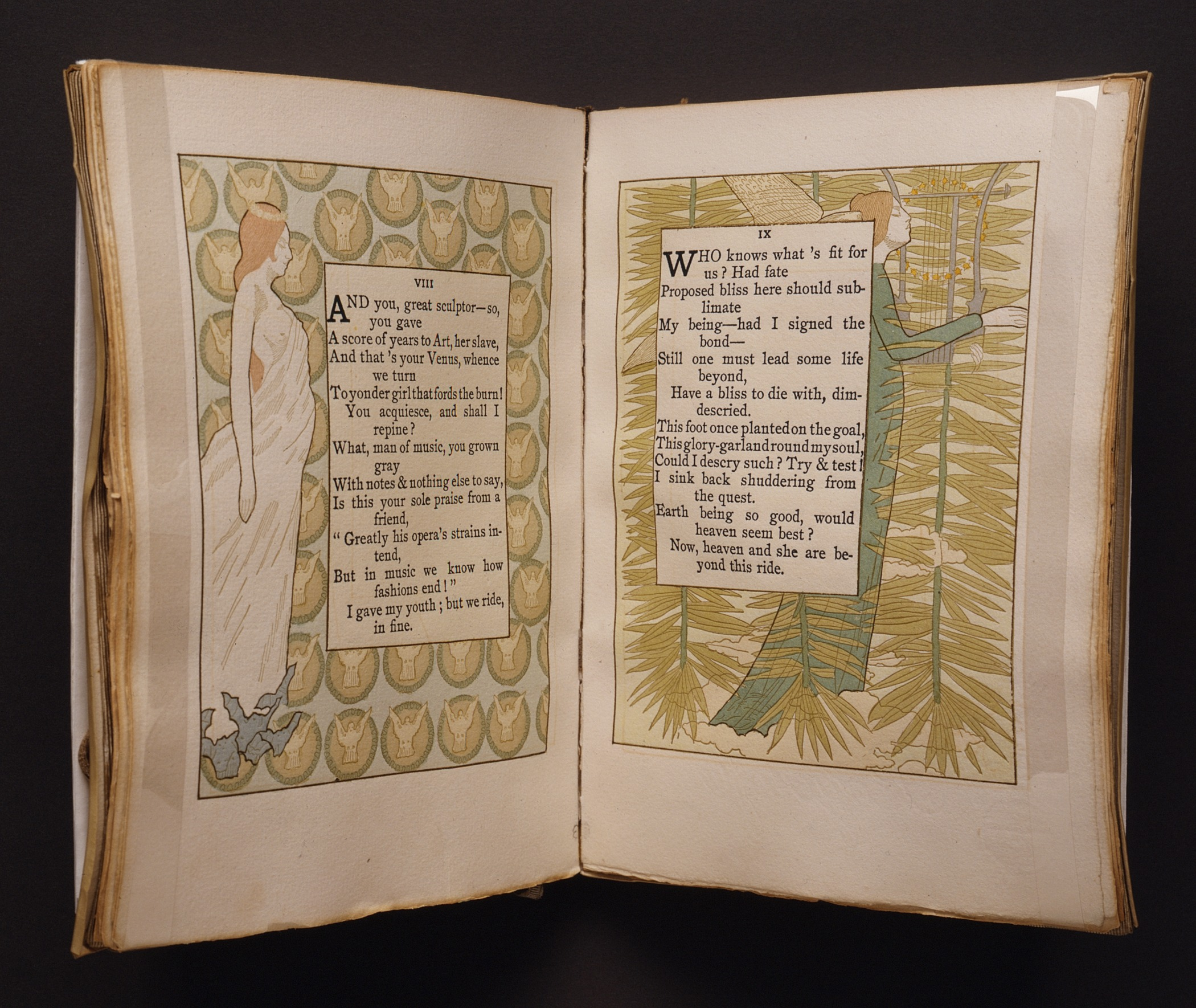 United States, 1900 Books Cover: vellum with yapp edges and linen tie ribbons; Pages: Ink on rag paper 7 3/4 x 5 7/8 x 7/16 in. (19.69 x 14.92 x 1.11 cm) Gift of Max Palevsky and Jodie Evans in honor of the museum's twenty-fifth anniversary (M.89.151.32) Decorative Arts and Design